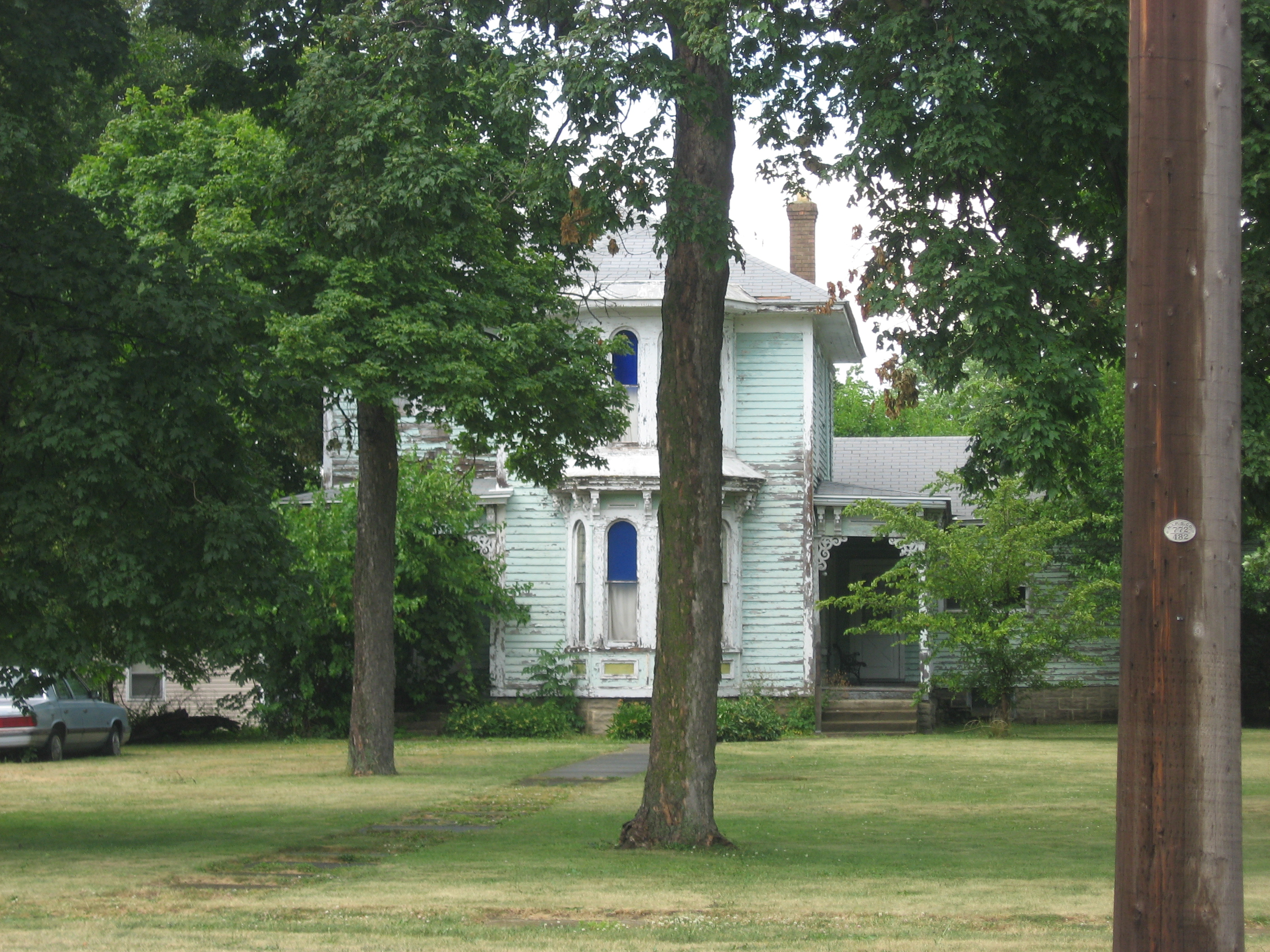 Front of the McCairn-Turner House, located at 124 W. Jasper Street (U.S. Route 24) in Goodland, Indiana, United States. Built in 1868, it is listed on the National Register of Historic Places.